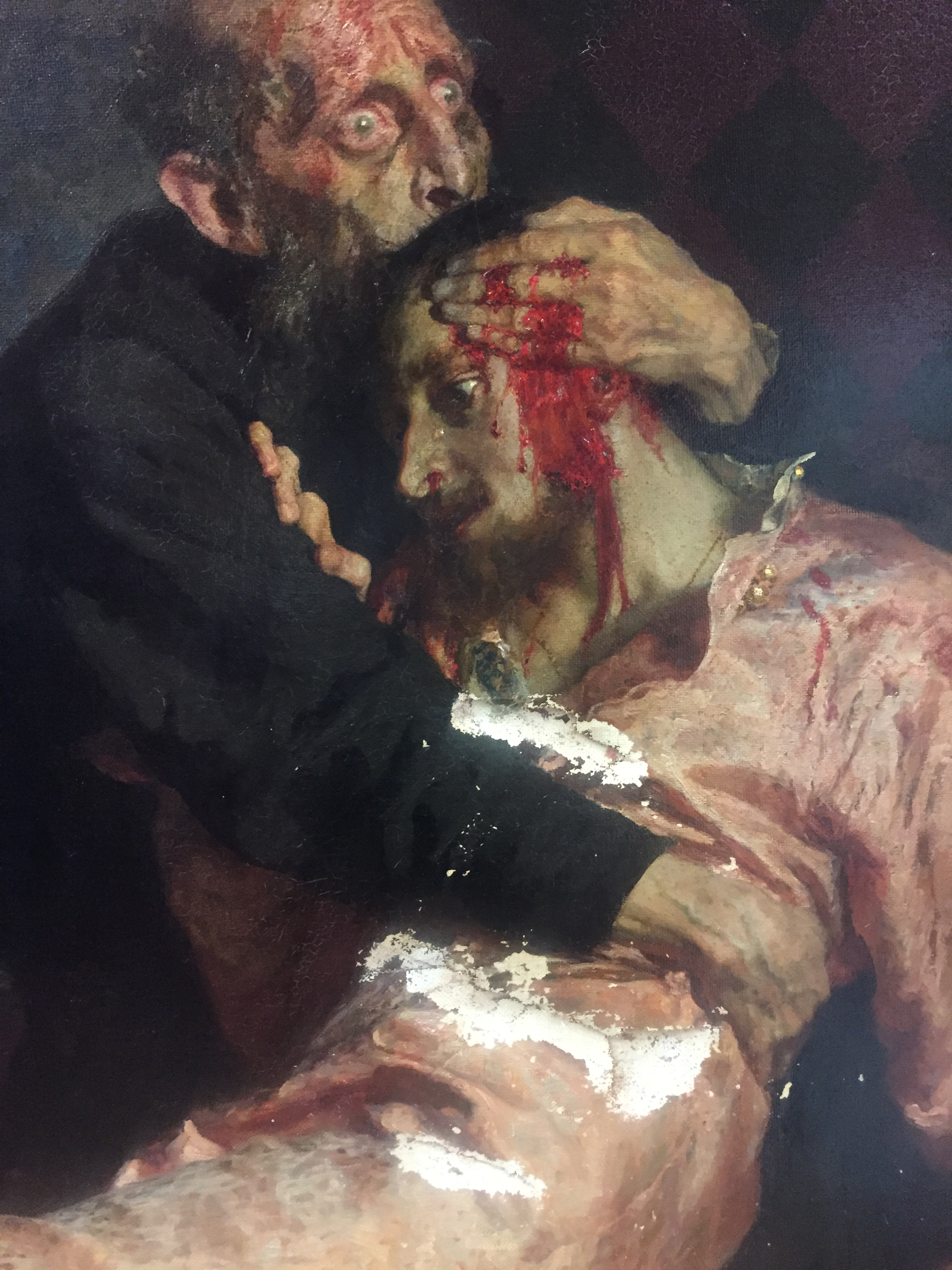 fragment of the painting "Ivan the Terrible killing his son" by Ilya Repin, showing damage by vandalism attack in May 2018